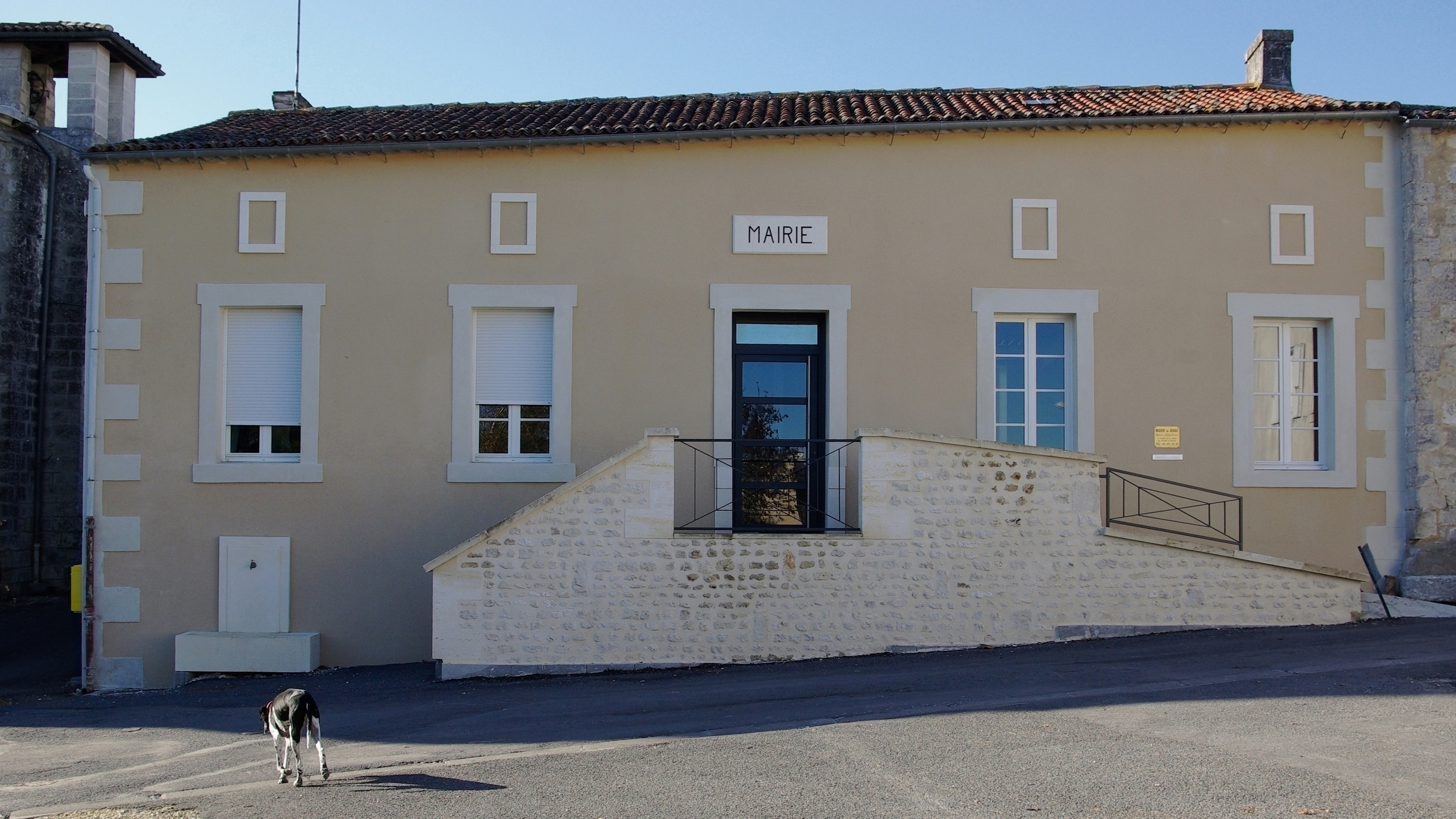 City hall of Birac, Charente, France.